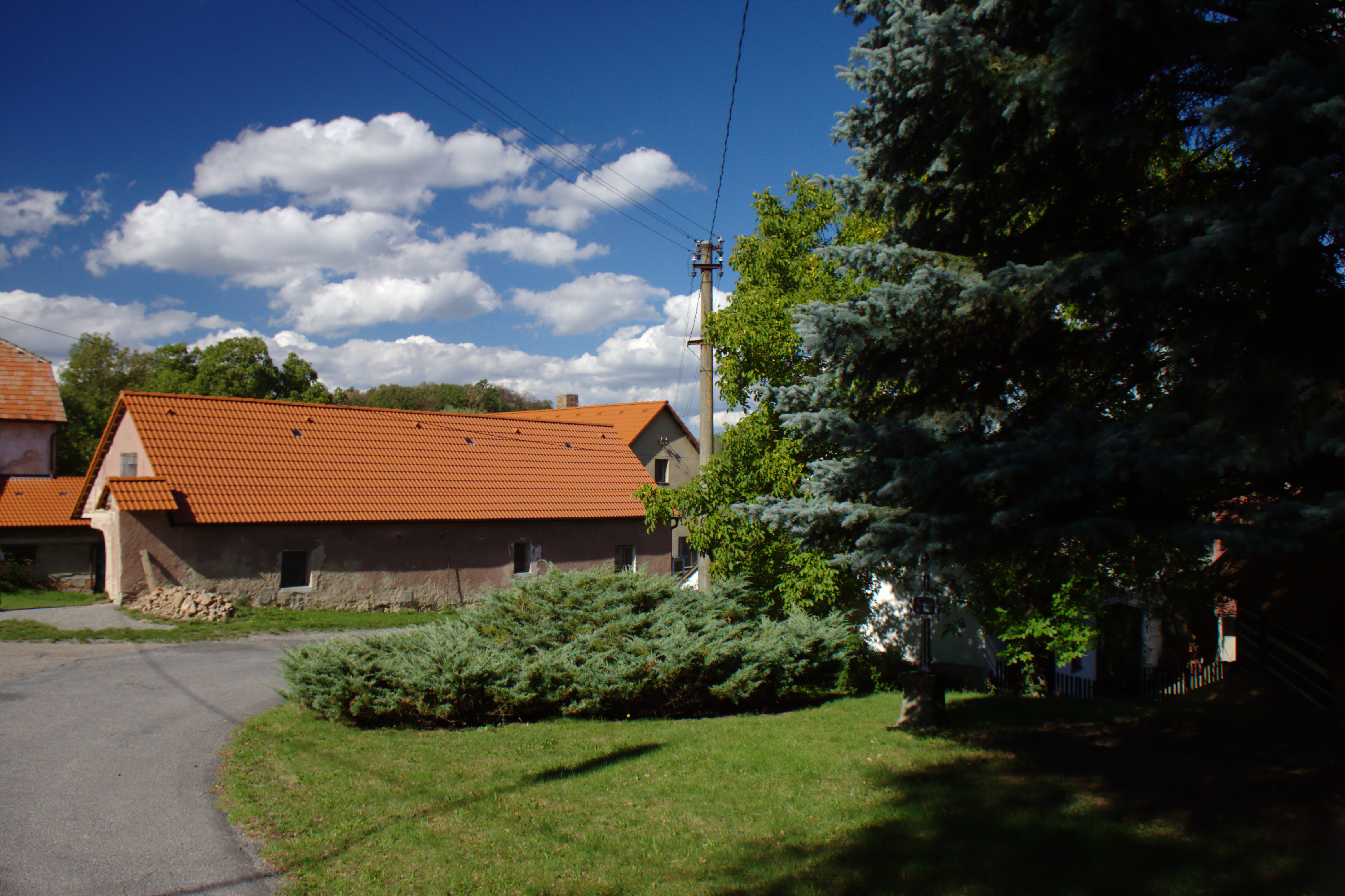 A building in the central part of the village of Kobylí in Benešov District, Central Bohemia, CZ